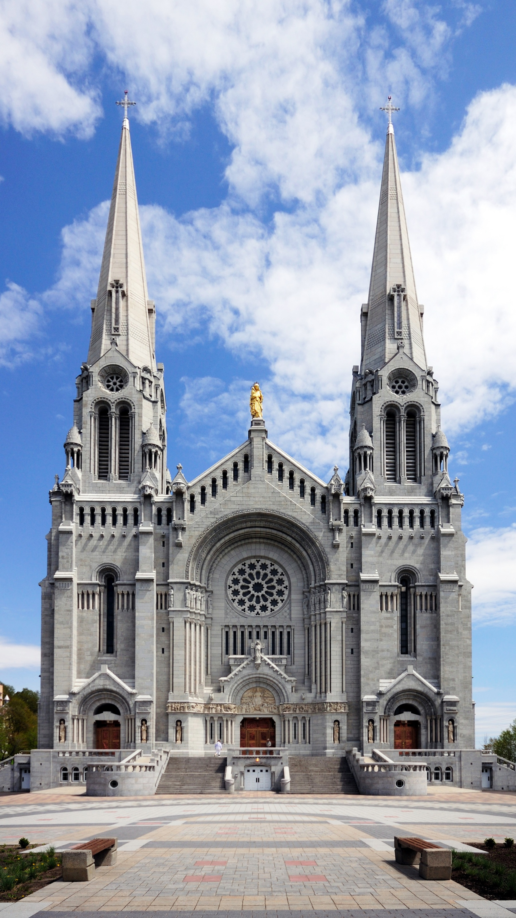 Basilica of Sainte-Anne-de-Beaupré